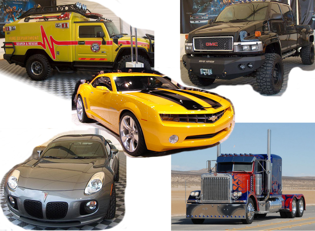 Cars of Transformers